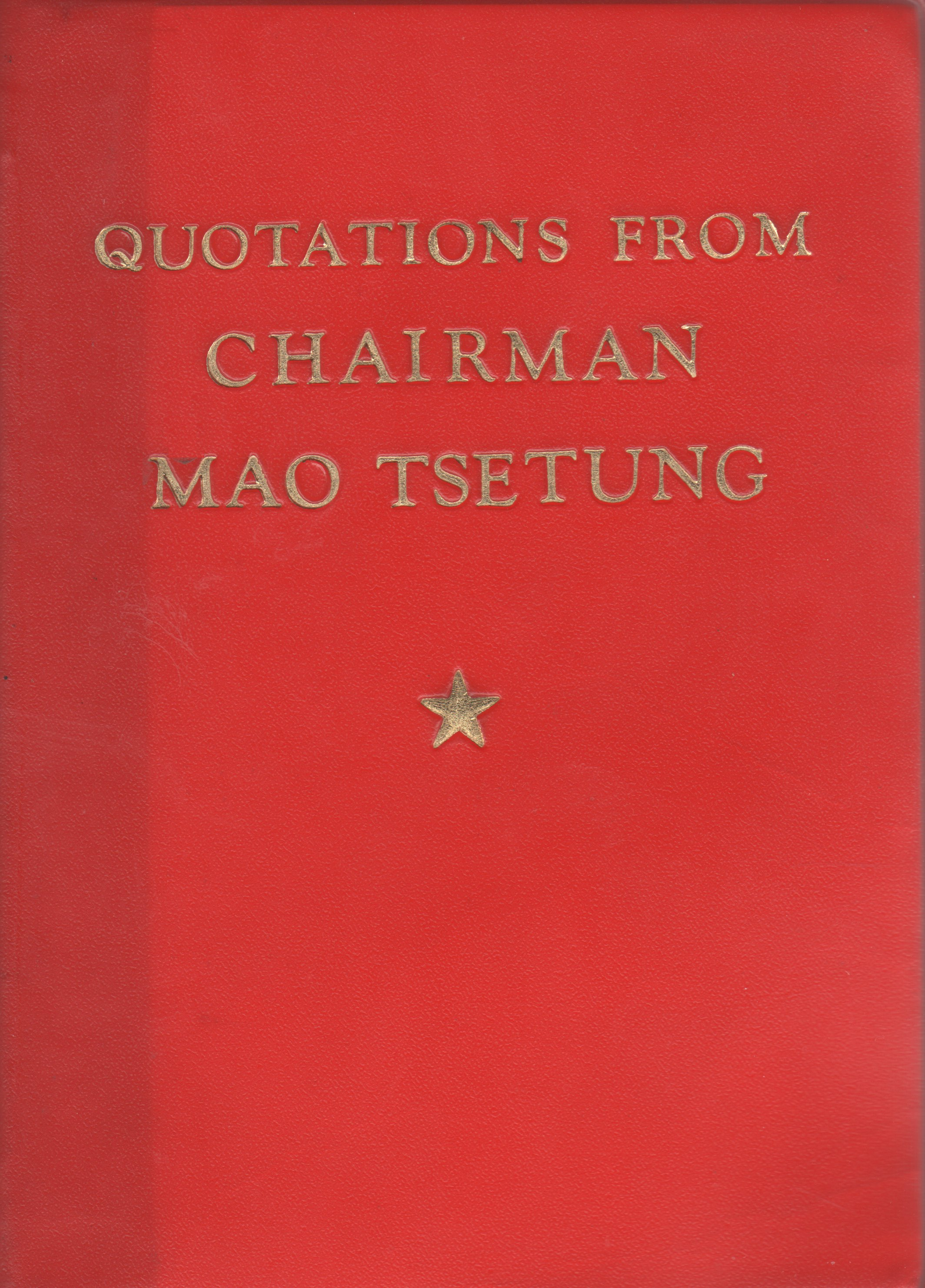 A scan of the cover on my 1972 English language edition of "Quotations from Chairman Mao Tsetung".